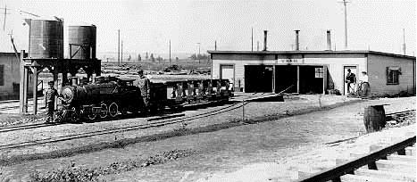 Roundhouse of Venice Miniature Railway constructed in 1905